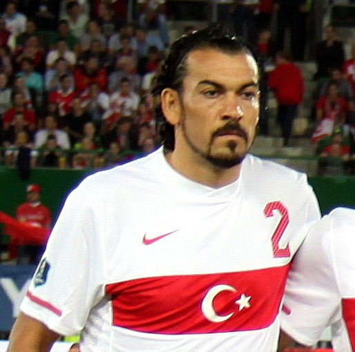 Servet Çetin, cropped from Turkey national football team against Austria 2011-09-06 (0:0)